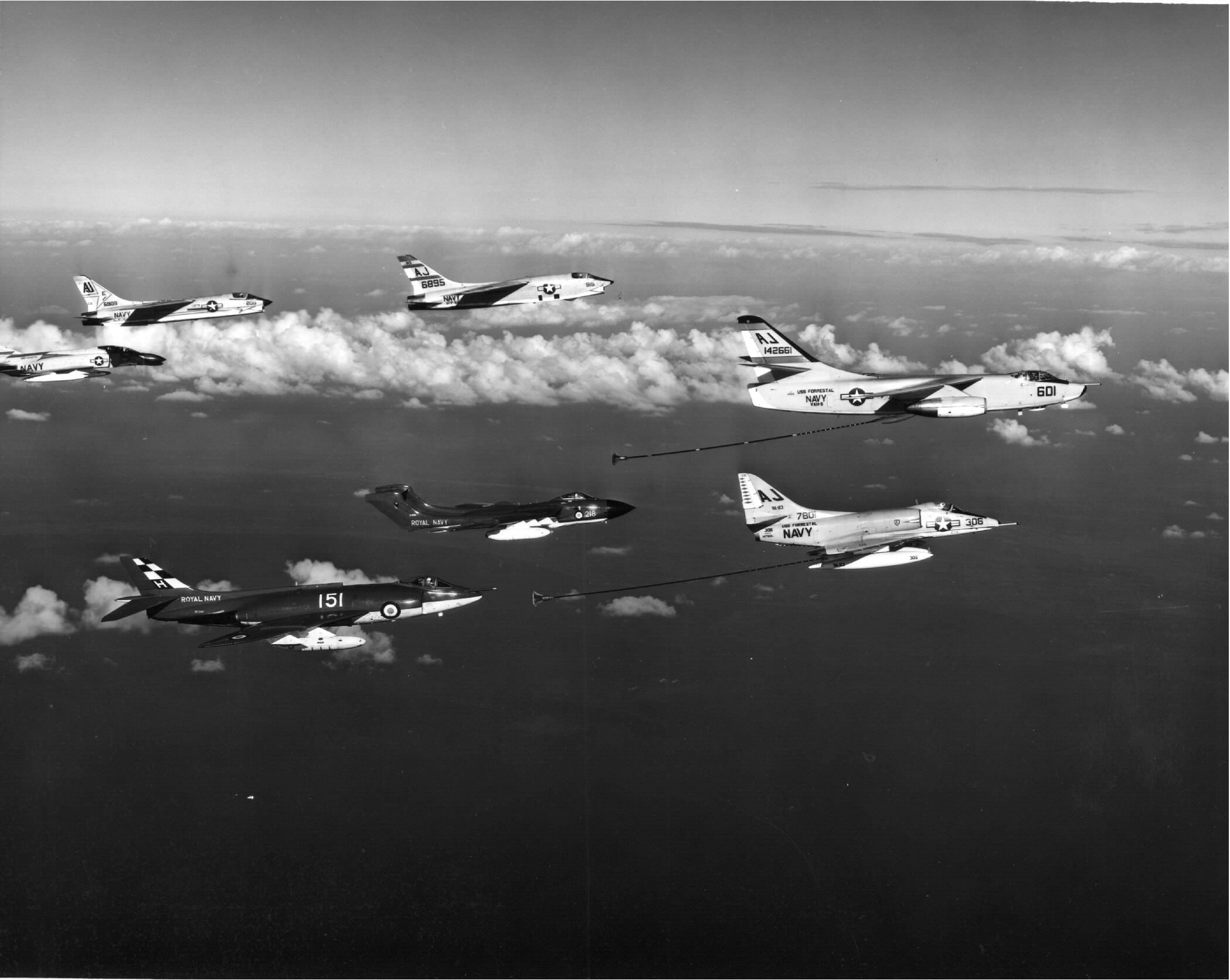 U.S. Navy and Royal Navy aircraft during aerial refueling in 1962-1963. The U.S. Navy aircraft are from Carrier Air Group 8 (CVG-8) which was deployed aboard the aircraft carrier USS Forrestal (CVA-59) to the Mediterranean Sea from 3 August 1962 to 2 March 1963 (l-r): A McDonnell F4H-1 Phantom II from Fighter Squadron VF-74 Be-Devilers; a Vought F8U-2 Crusader (BuNo 146909) from VF-103 Sluggers; a F8U-1P (BuNo 146895) from Light Photographic Squadron VFP-62 Det.59 Fighting Photos; a Douglas A4D-2N Skyhawk (BuNo 147801) from Attack Squadron VA-83 Rampagers; and a Douglas A3D-2 Skywarrior (BuNo 142661) from Heavy Attack Squadron VAH-11 Det.59 Checkertails. Two Royal Navy Fleet Air Arm aircraft from HMS Hermes (R12) are lining up for refueling (l-r): a Supermarine Scimitar F.1 (serial XD244) from 803 Naval Air Squadron, and a De Havilland Sea Vixen FAW.1 from 892 NAS.